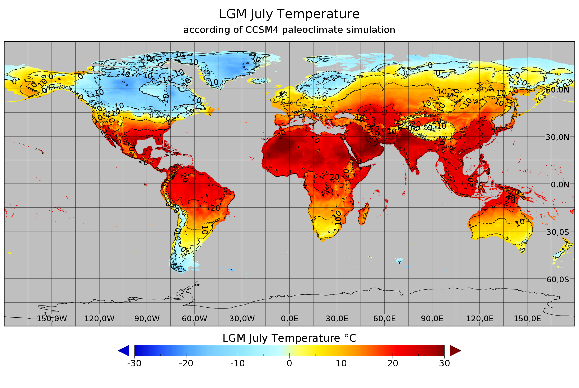 July temperarture at last glacial maximum (LGM), according of CCSM4 climate simulation.